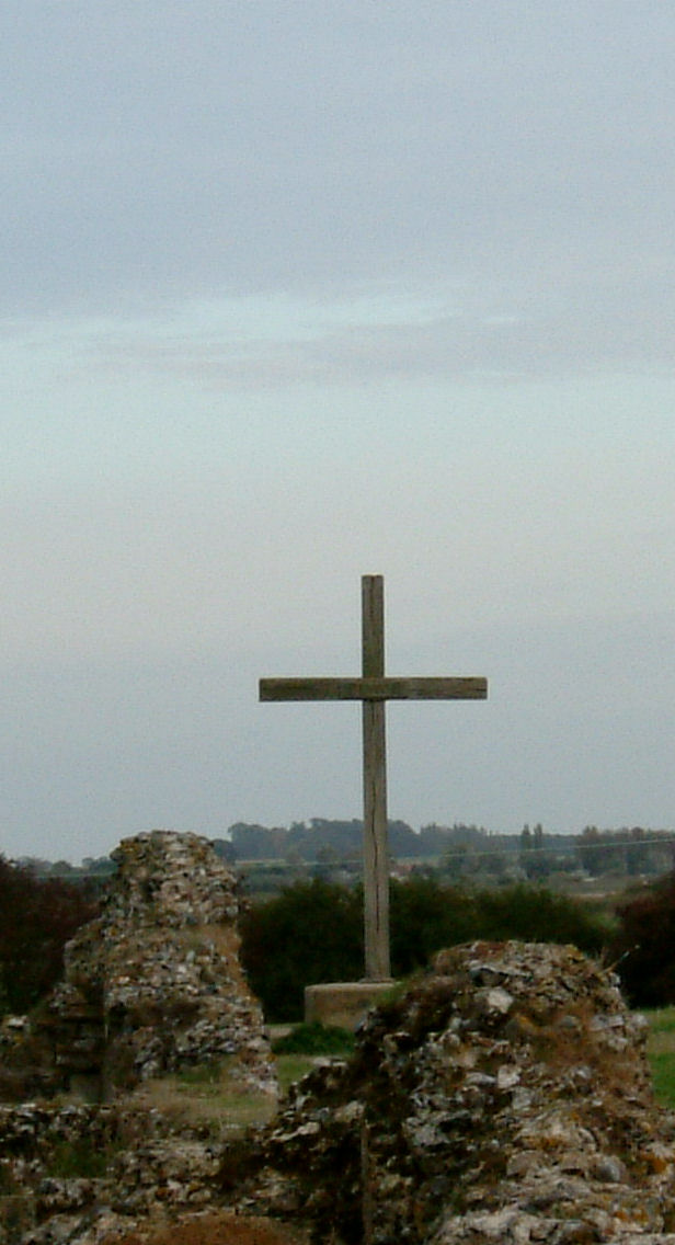 A picture of the Cross at the High Altar of St. Benet's Abbey, Norwich.